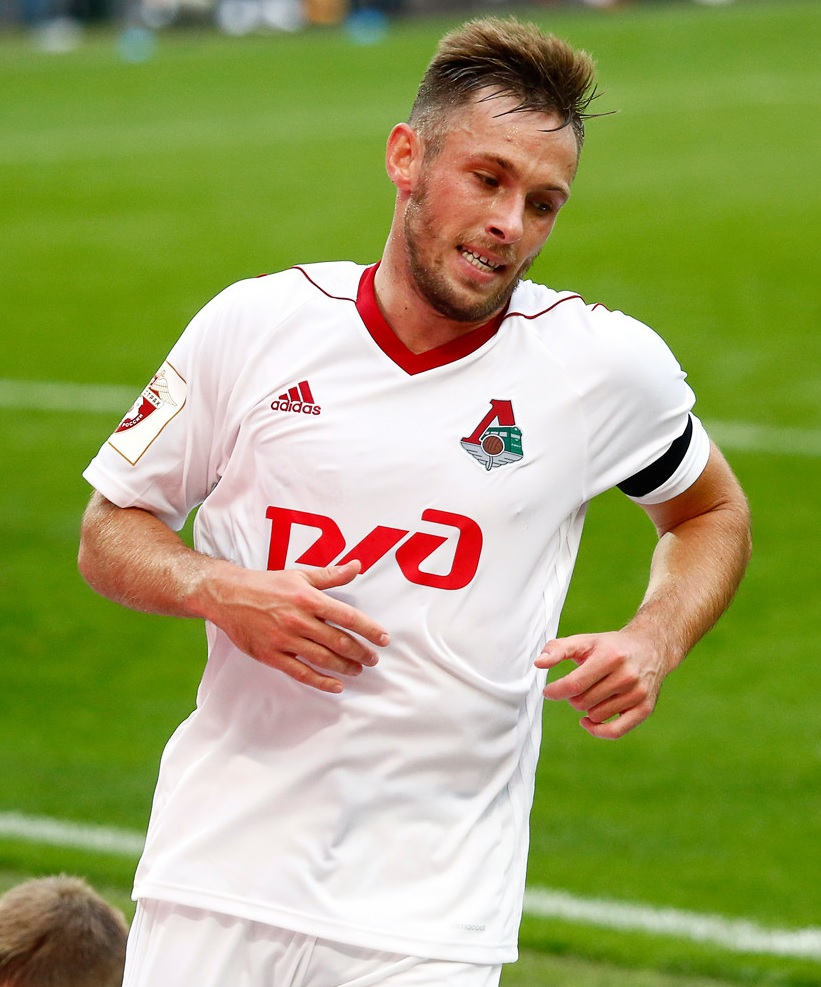 Maciej Rybus with FC Lokomotiv Moscow in a game against FC Anzhi Makhachkala.